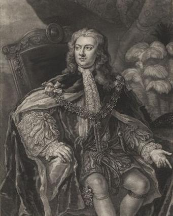 Charles Lennox, 2nd Duke of Richmond (1701-1750)